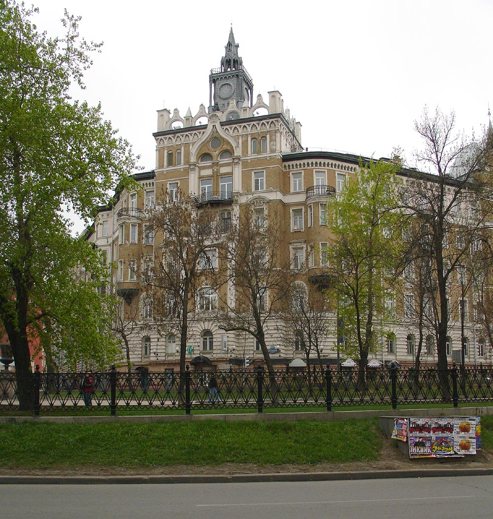 Corner of Sretensky Boulevard and Frolov Lane, Moscow